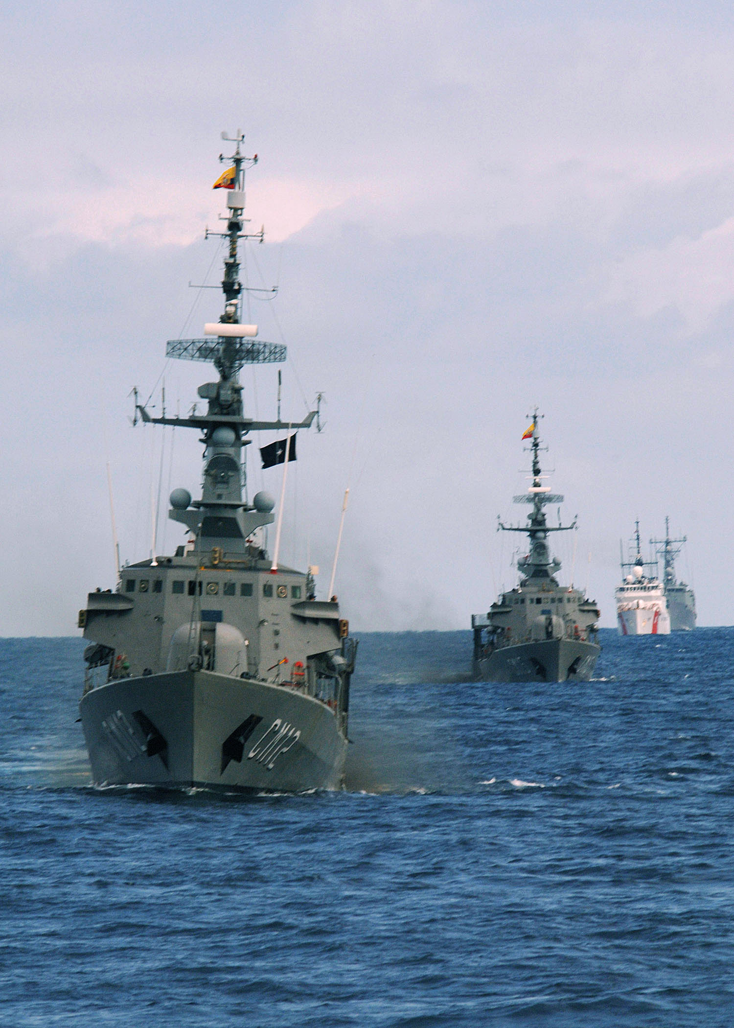 Pacific Ocean (July 12, 2005) - The Ecuadorian Navy corvette BAE Manabi (CM 12) underway in front of a formation during UNITAS 46-05 Pacific Phase. The Colombian Navy in this year’s UNITAS Pacific Phase hosts Ecuador, Panama, Peru and the United States. During the two-week exercise, participating units have the opportunity to train as unified force in all aspects of naval operations, from maritime interdiction to anti-submarine and electronic warfare. U.S. Naval Forces Southern Command sponsors UNITAS exercises with the objective to foster cooperation and develop interoperability among the navies of the region. U.S. Navy photo by Photographer’s Mate 2nd Class Michael Sandberg (RELEASED)